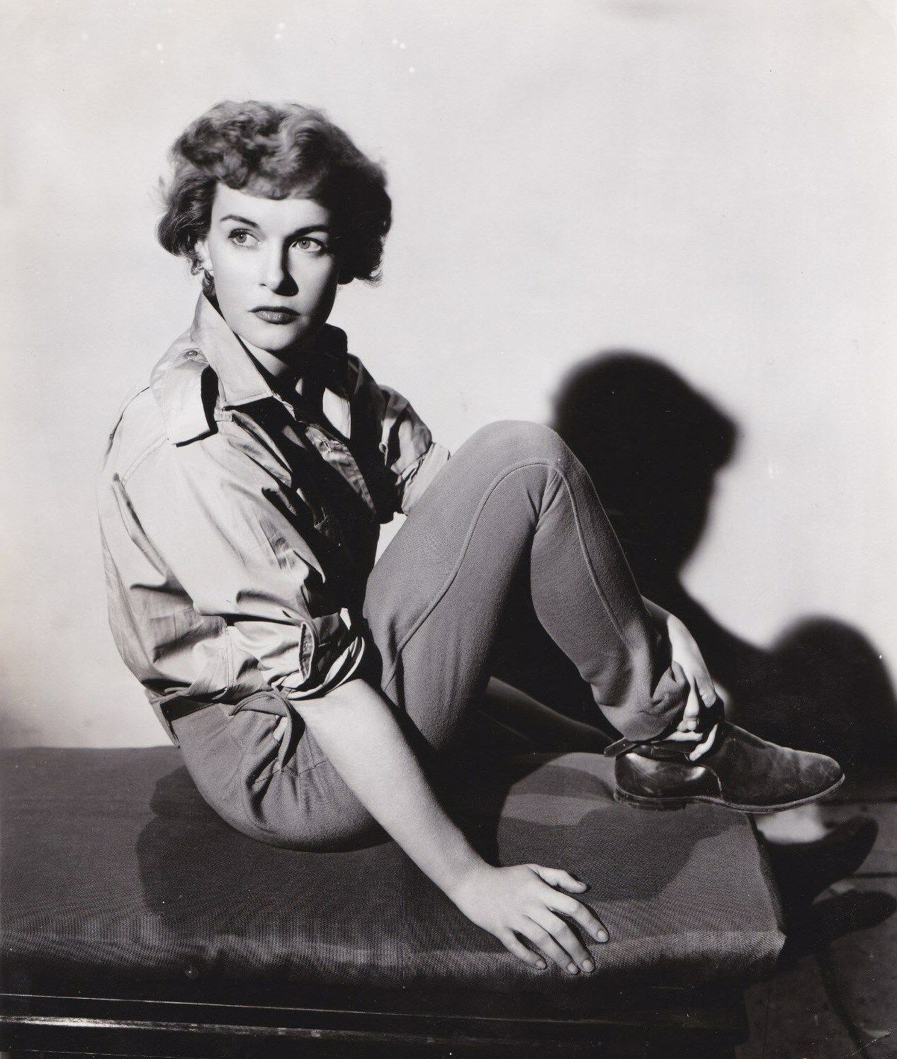 Diana Douglas 1950 Original Vintage Glamour Portrait Photo